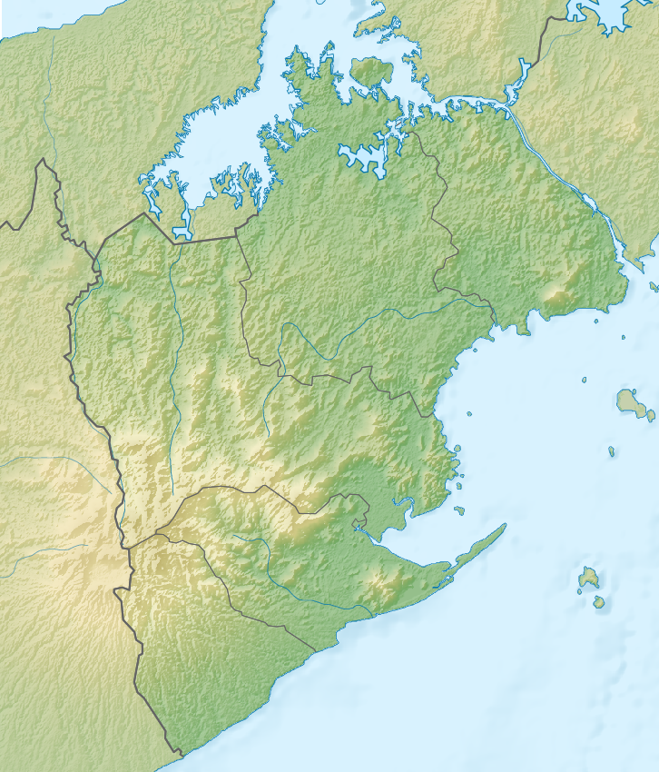 Relief map of West Panama province, Panama.